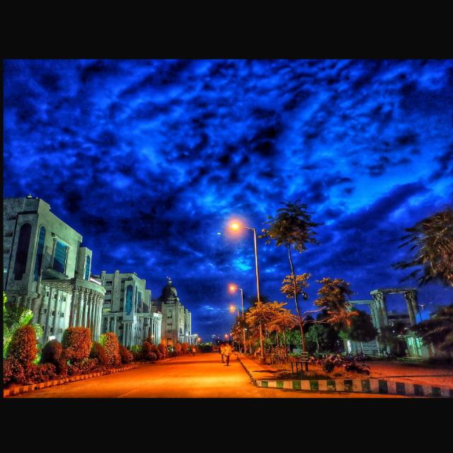 ESIC Medical College Main Buiding at night